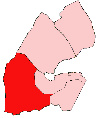 Map of the Djibouti showing Dikhil Region